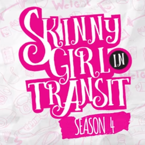 Skinny Girl in Transit Series 4 advert in 2017 from NdaniTV ad